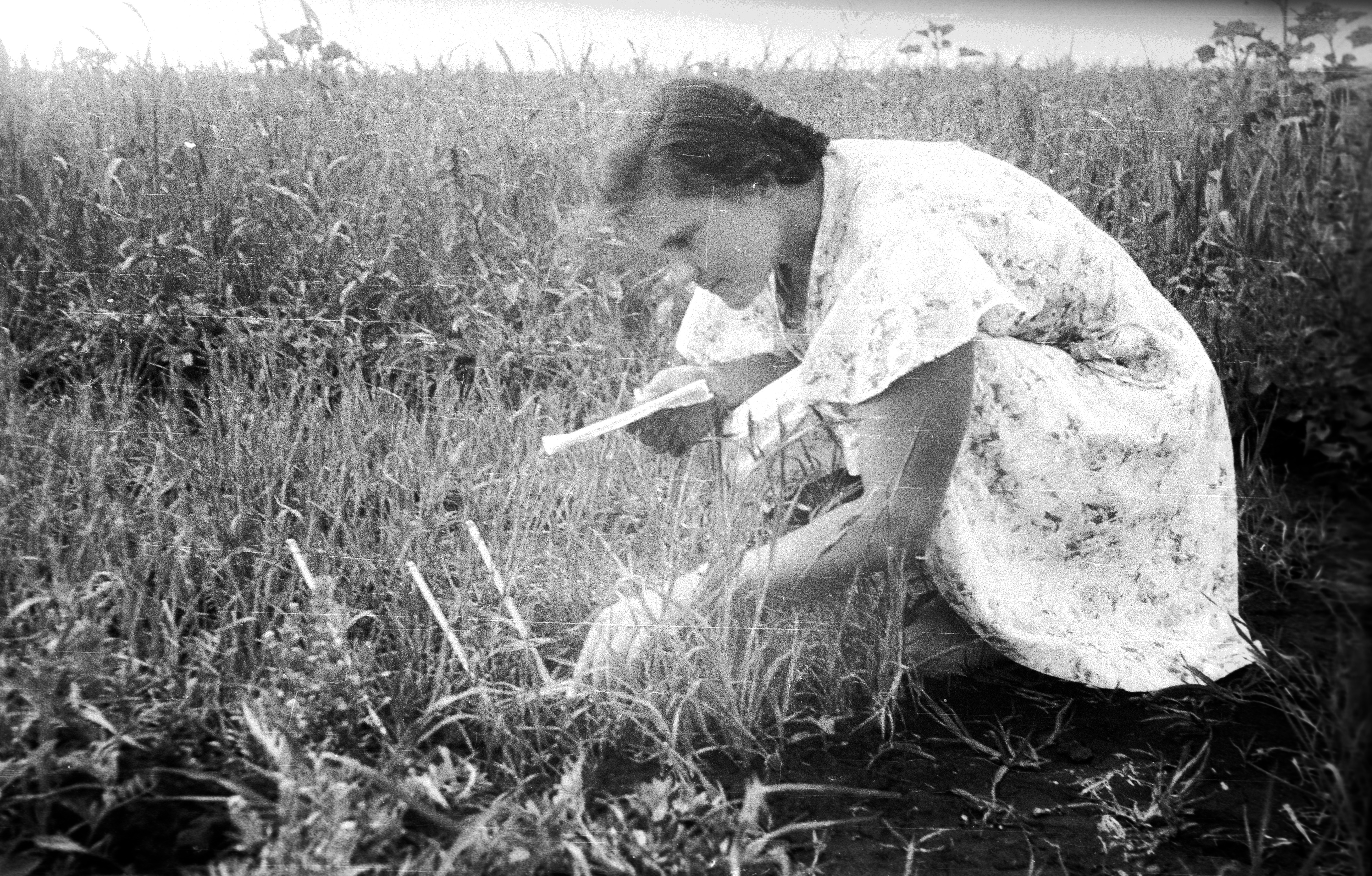 Agrometeorologist at work in the Nizhny Novgorod region (1953).